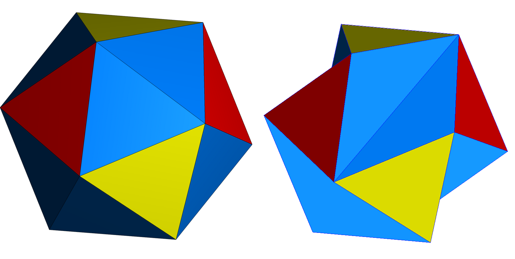 A regular icosahedron and a non-convex variant, resembling but different from Jessen's icosahedron